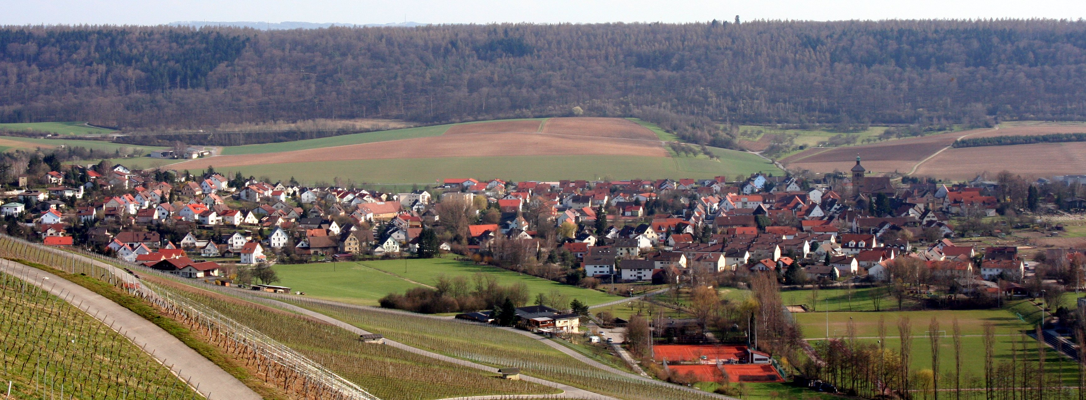 Eberstadt photographed from the "Eberfürst" hill